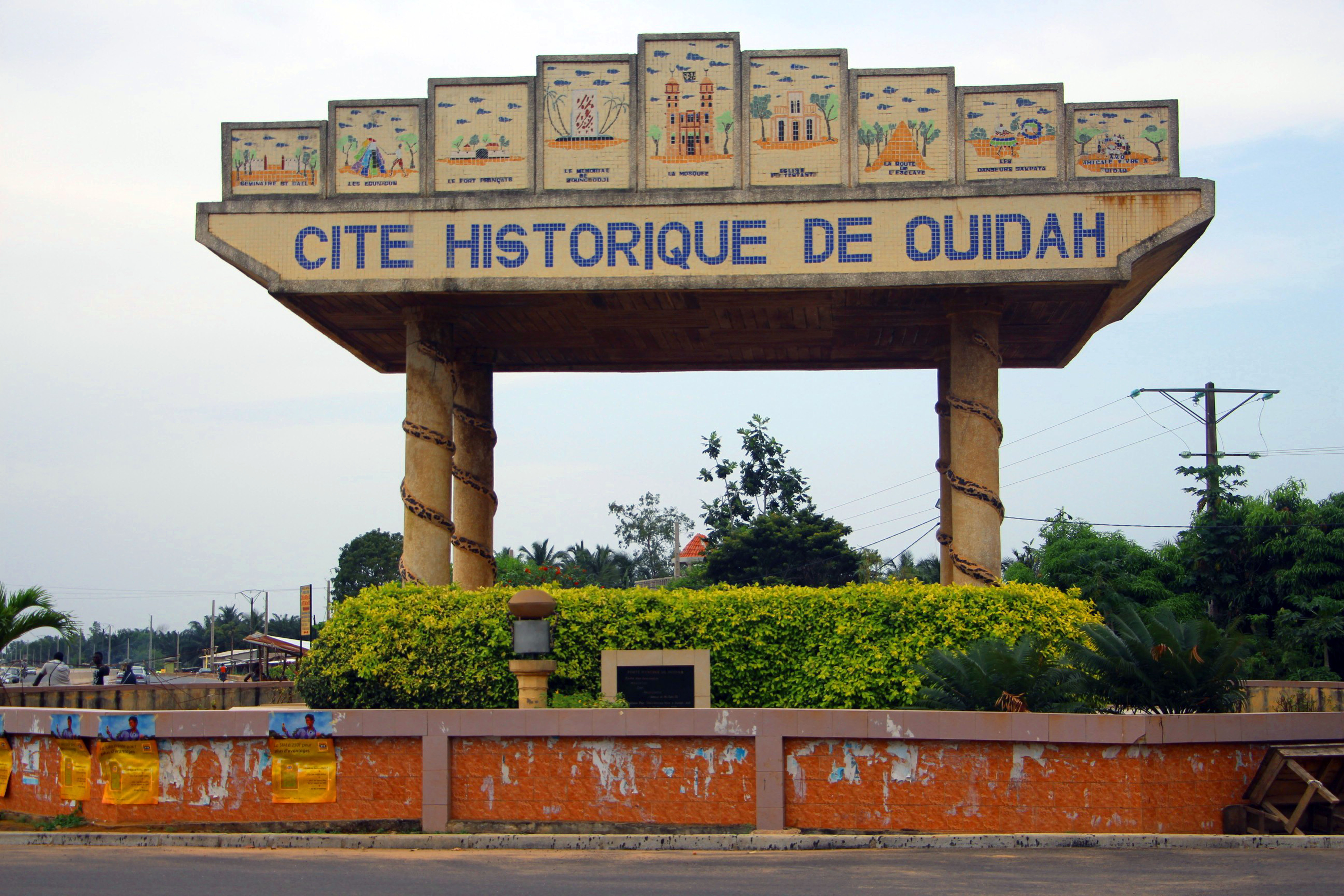 entrance to the historic city of Ouidah This is an image with the theme "Africa on the Move or Transport" from: Benin